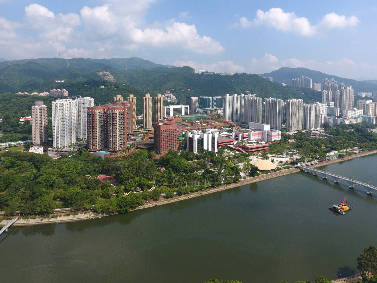 Shatin Central